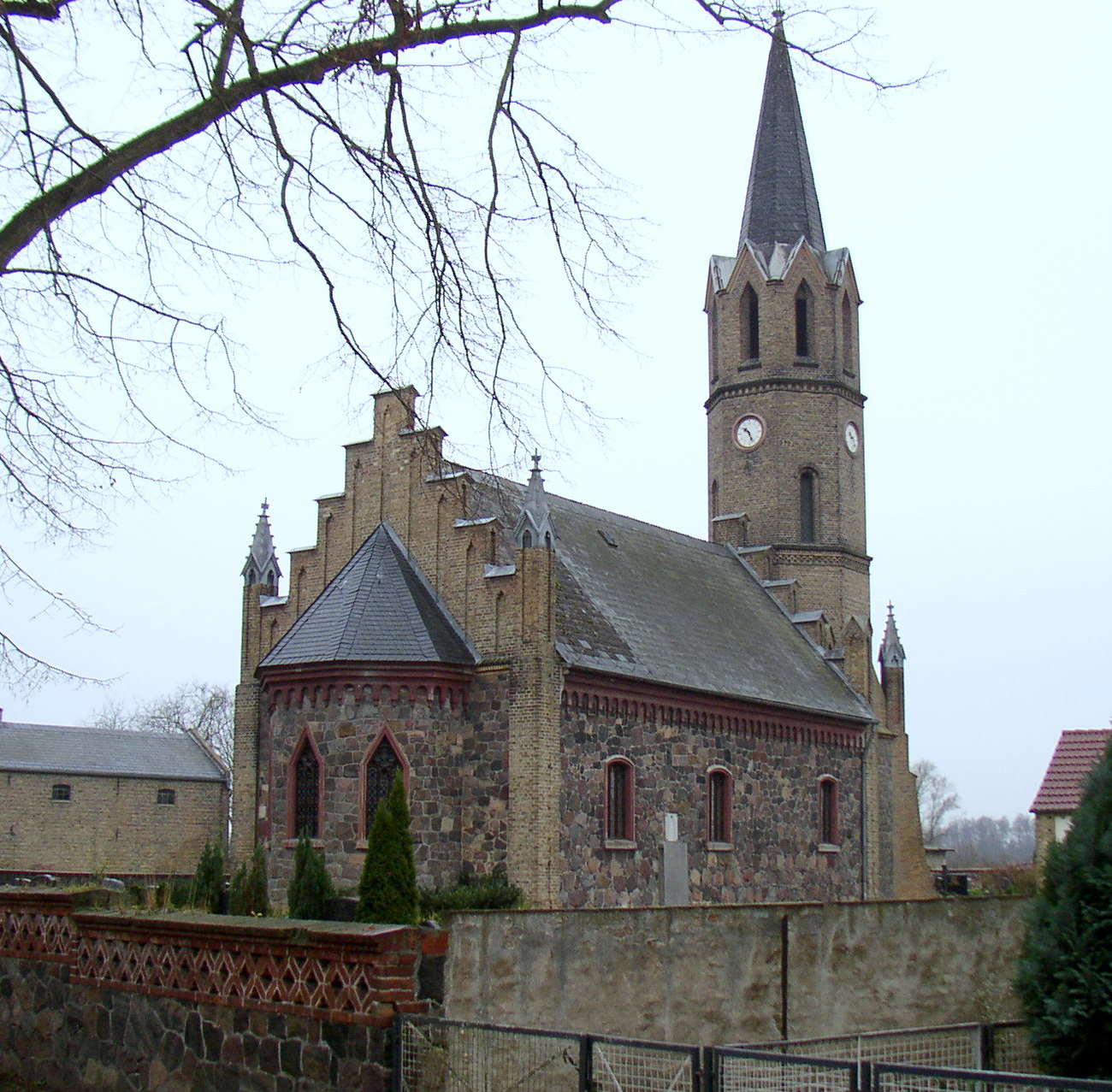 Church in the village Plessow, part of town Werder (Havel)